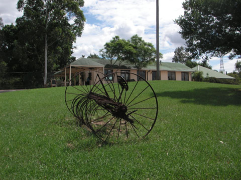 Entrance to Fairfield City Farm in Abbotsbury, NSW